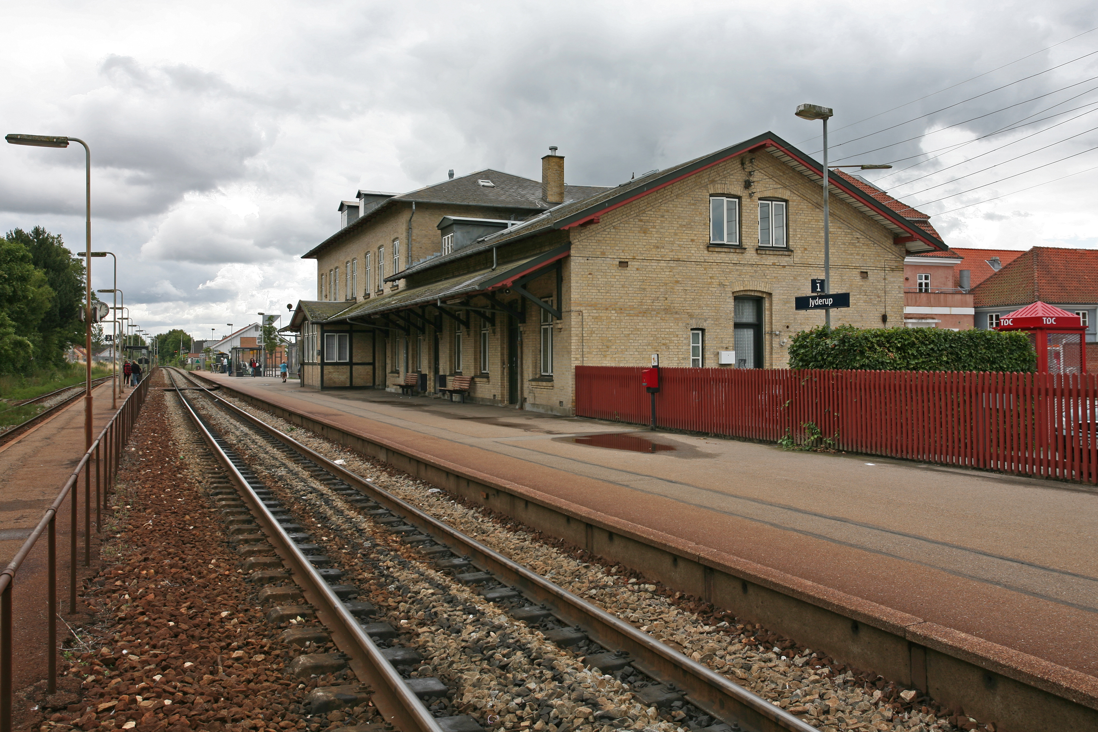 Picture of Jyderup Railway Station (Jyderup - Denmark)